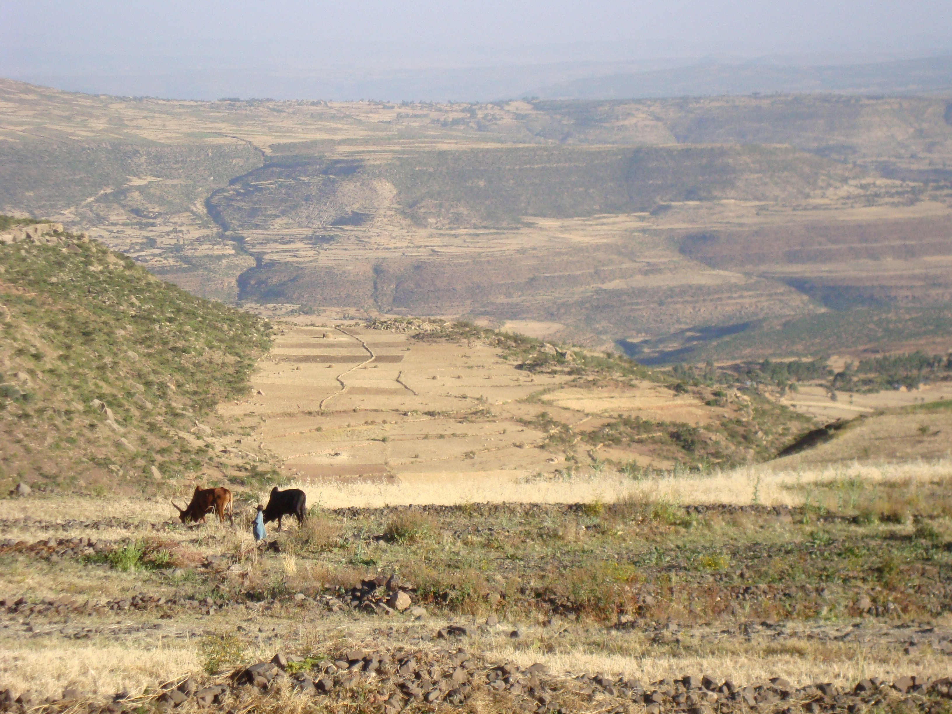 landscape in Hechi, Dogu'a Tembien, Tigray